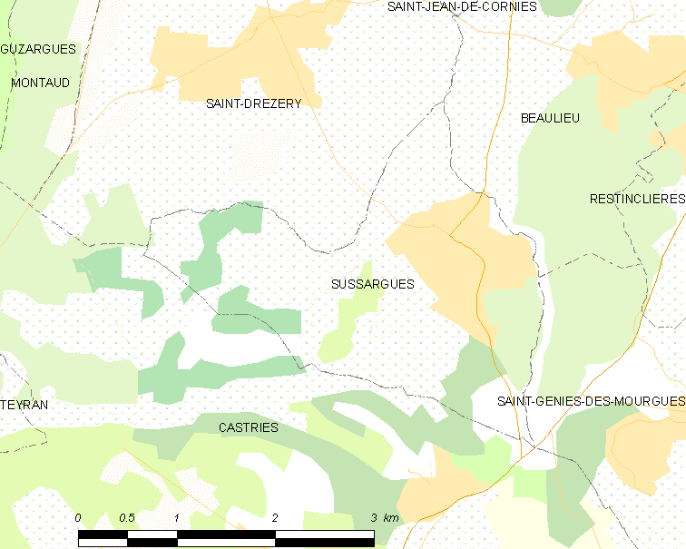 Map commune FR insee code 34307.png - Sussargues